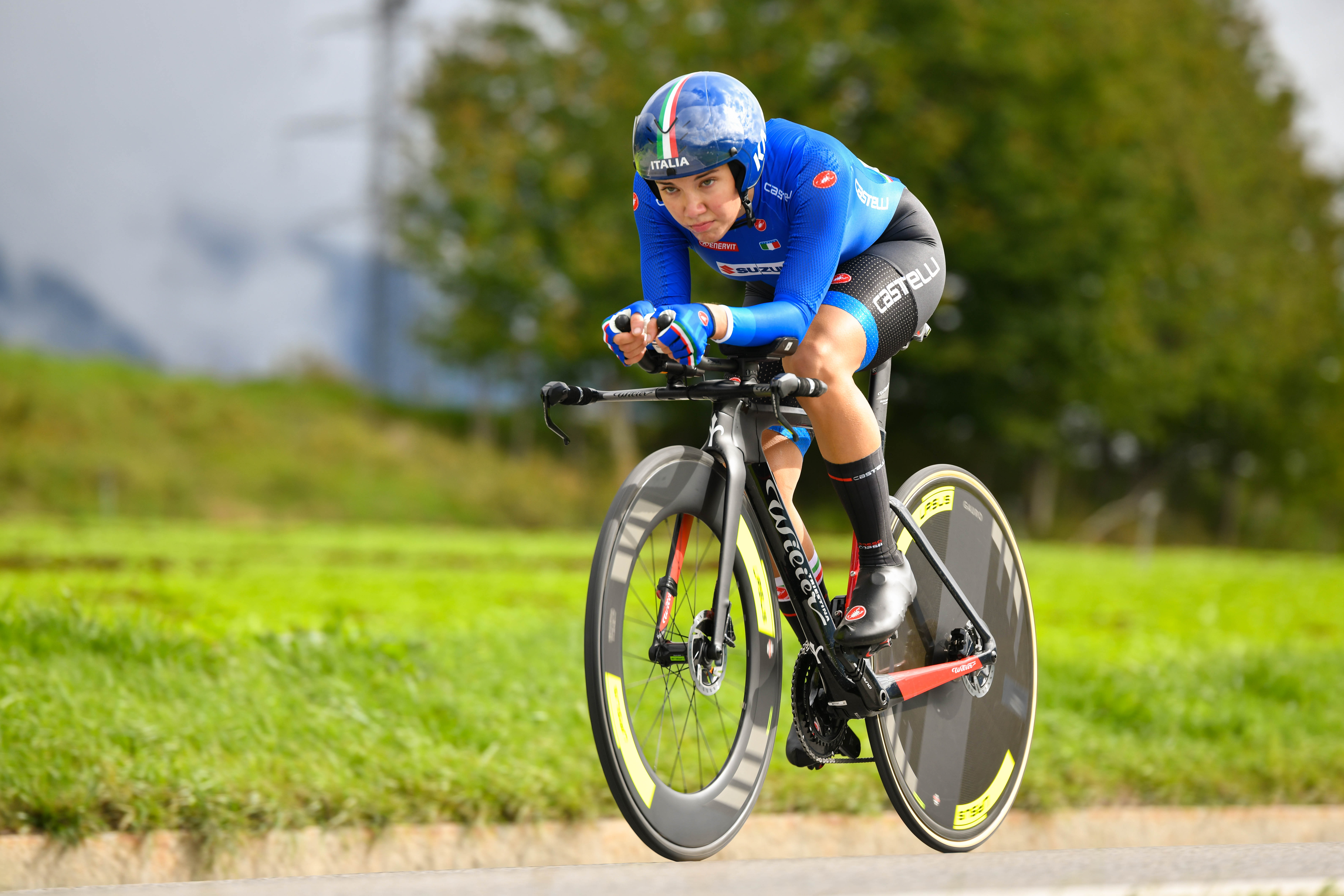 2018 UCI Road World Championships Innsbruck/Tirol Women Juniors Individual Time Trial. Picture shows: Giorgia Bariani (ITA)